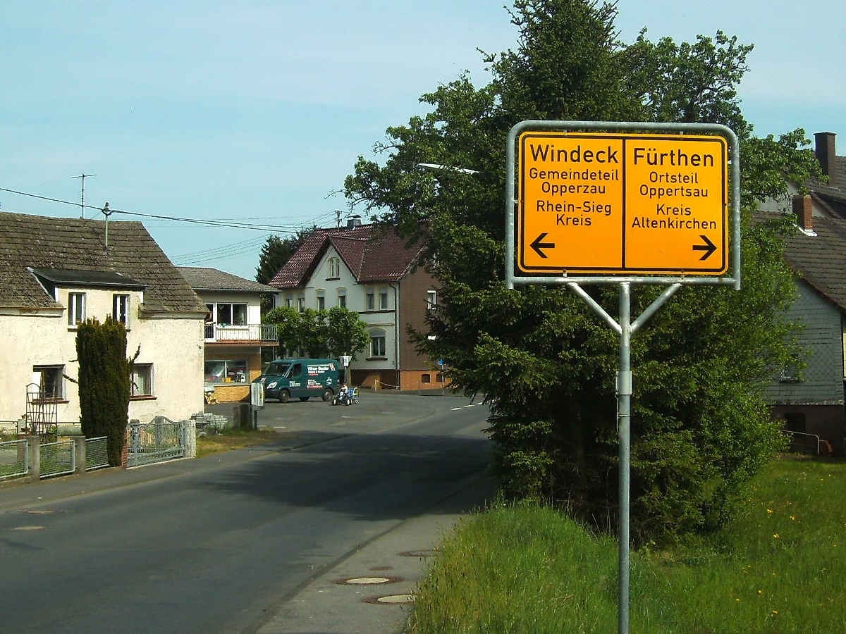 The road 112 / 267 parts the districts Opperzau (Windeck) und Oppertsau (Fürthen) for 656,16 ft (200 metres). In same relation it presents the borderline of North Rhine-Westphalia and Rhineland-Palatinate